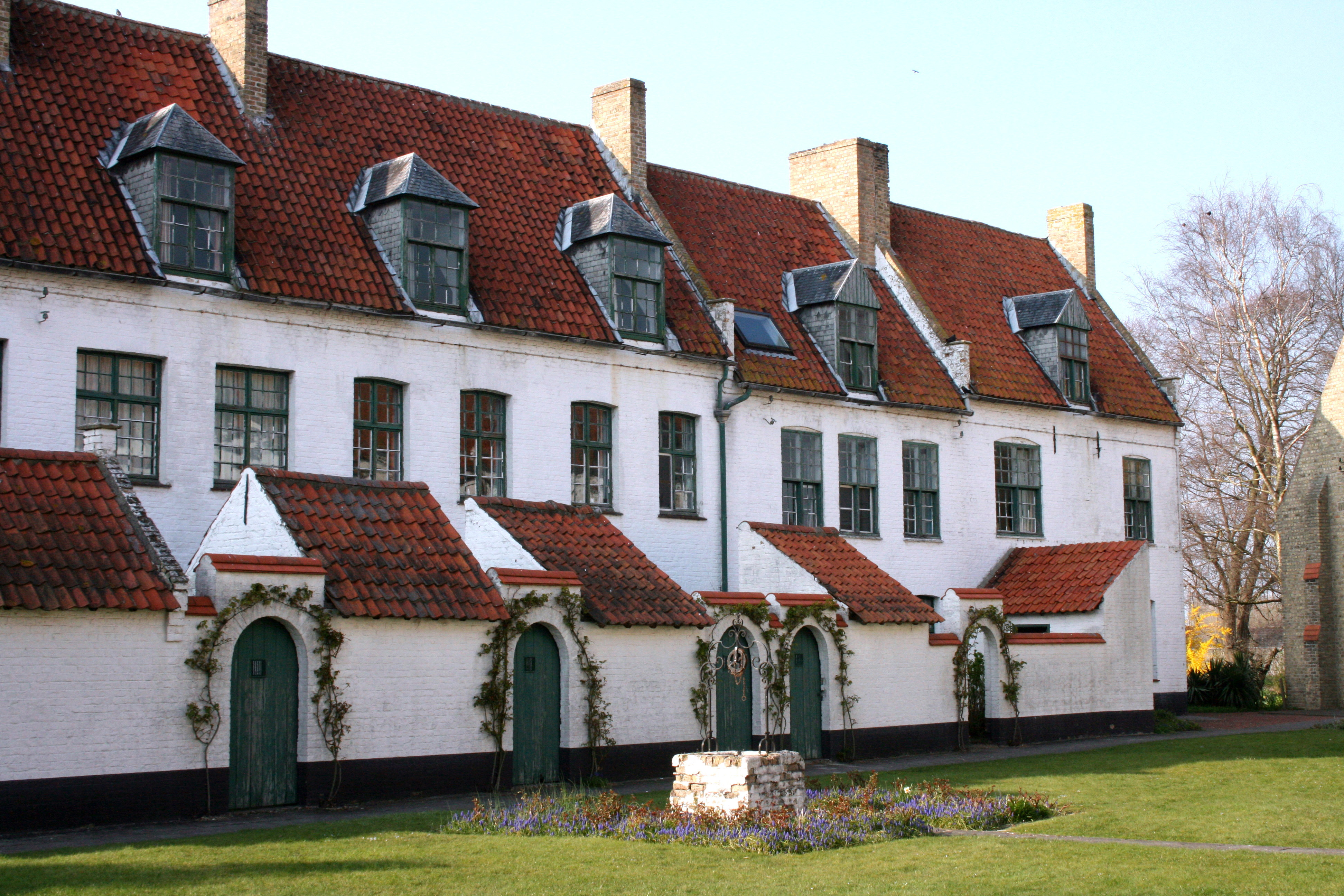 Beguinage Diksmuide. Destroyed during World War I. Rebuilt in original style in the 1920s